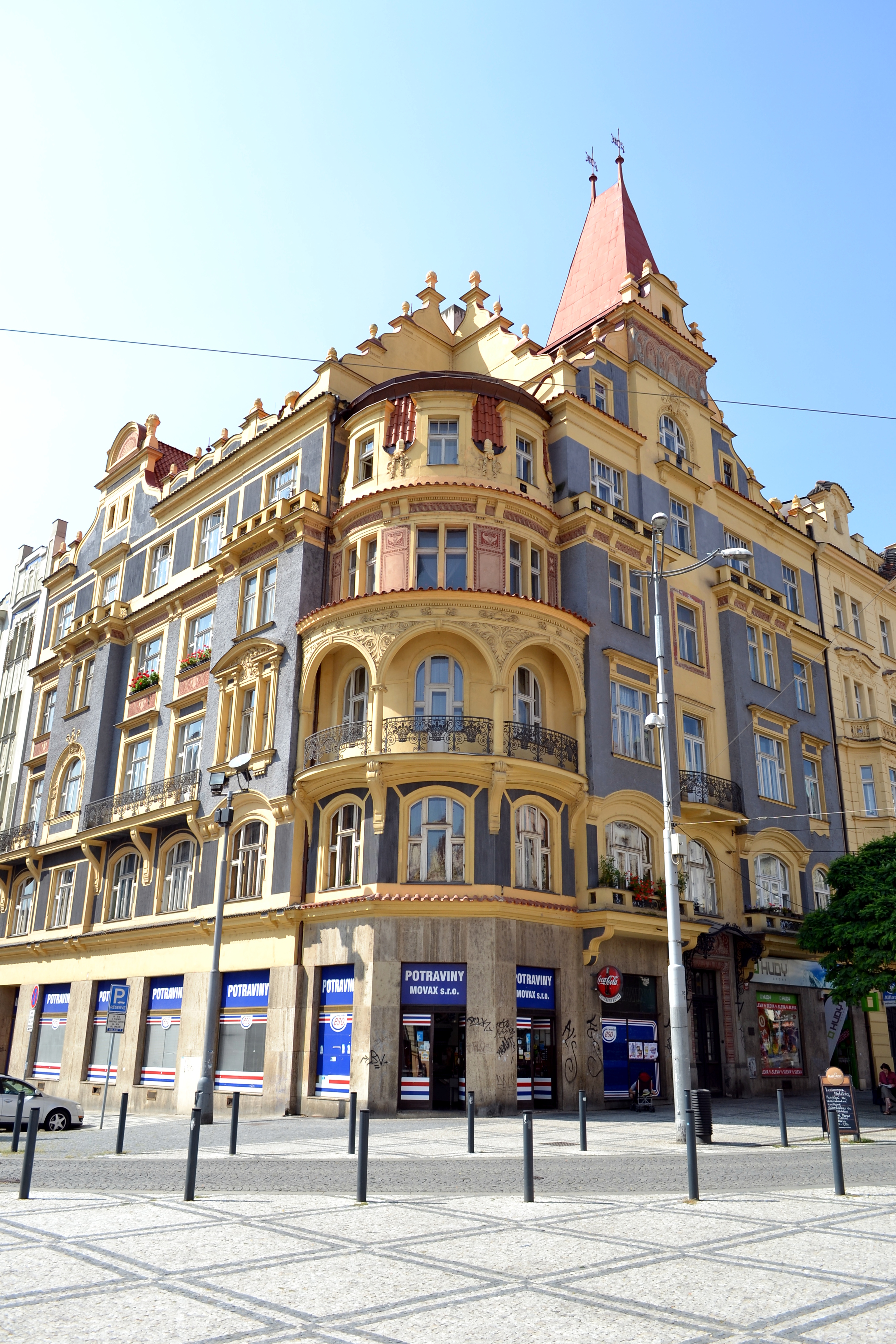 House No. 965 in Strossmayerovo náměstí square, Holešovice, Prague 7, Czech Republic.